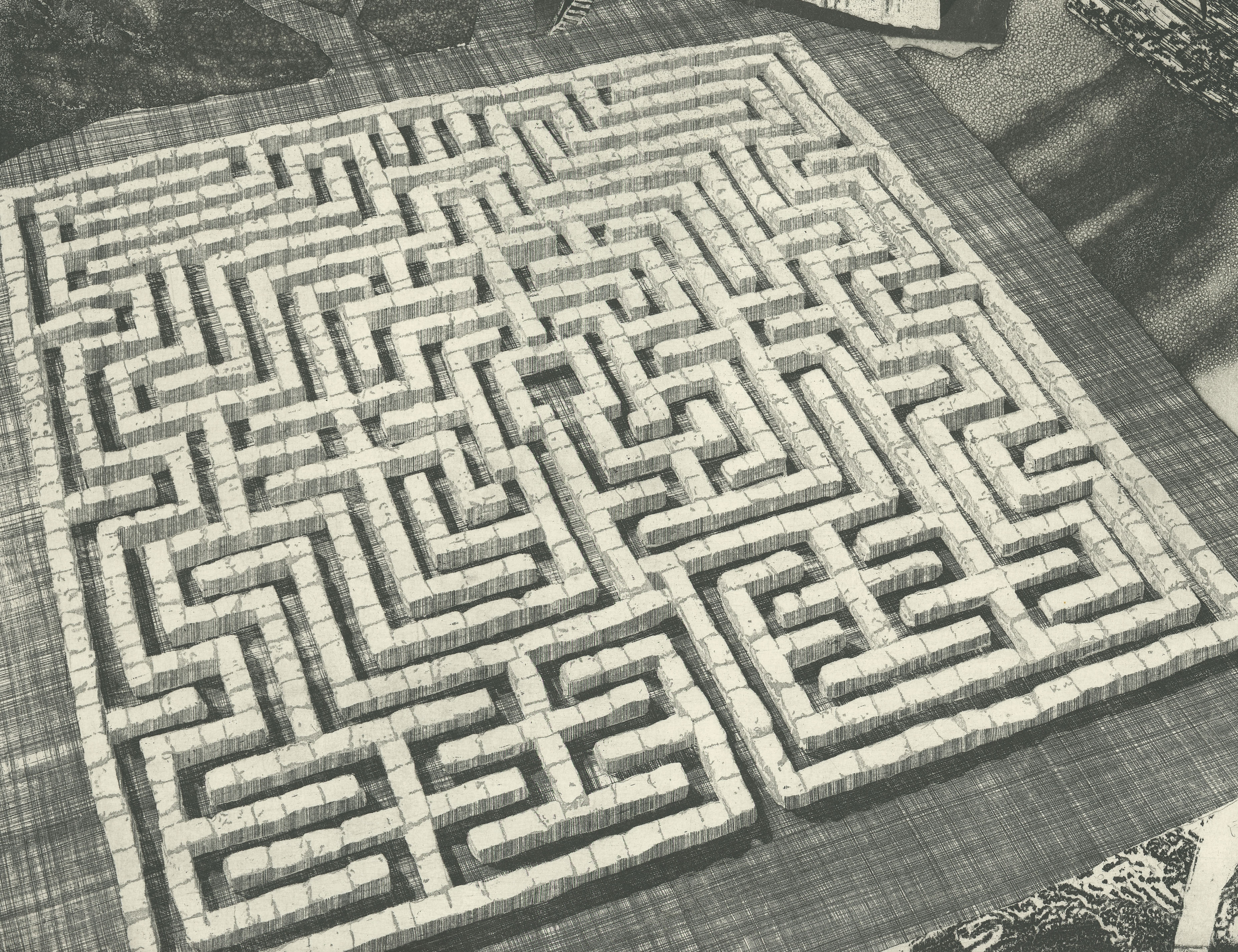 Labyrinth 29, etching, by Toni Pecoraro.